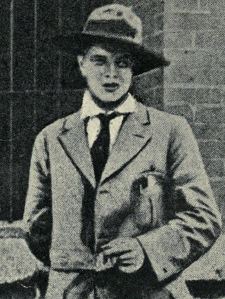 Horst Von Der Goltz, photographed in Mexico. From the jacket of his book "My Adventures as a German Secret Service Agent" (1917)